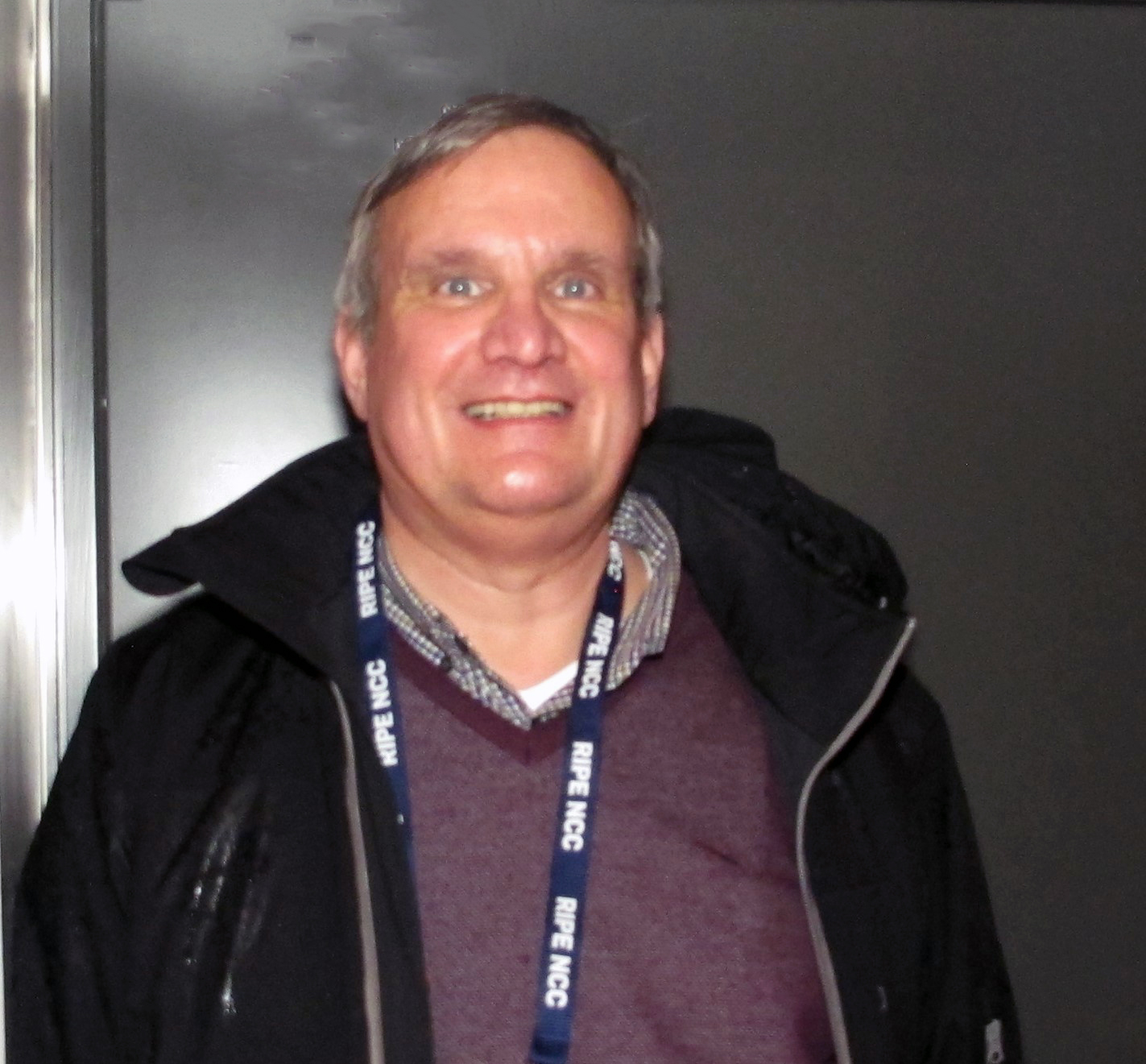 Daniel Karrenberg